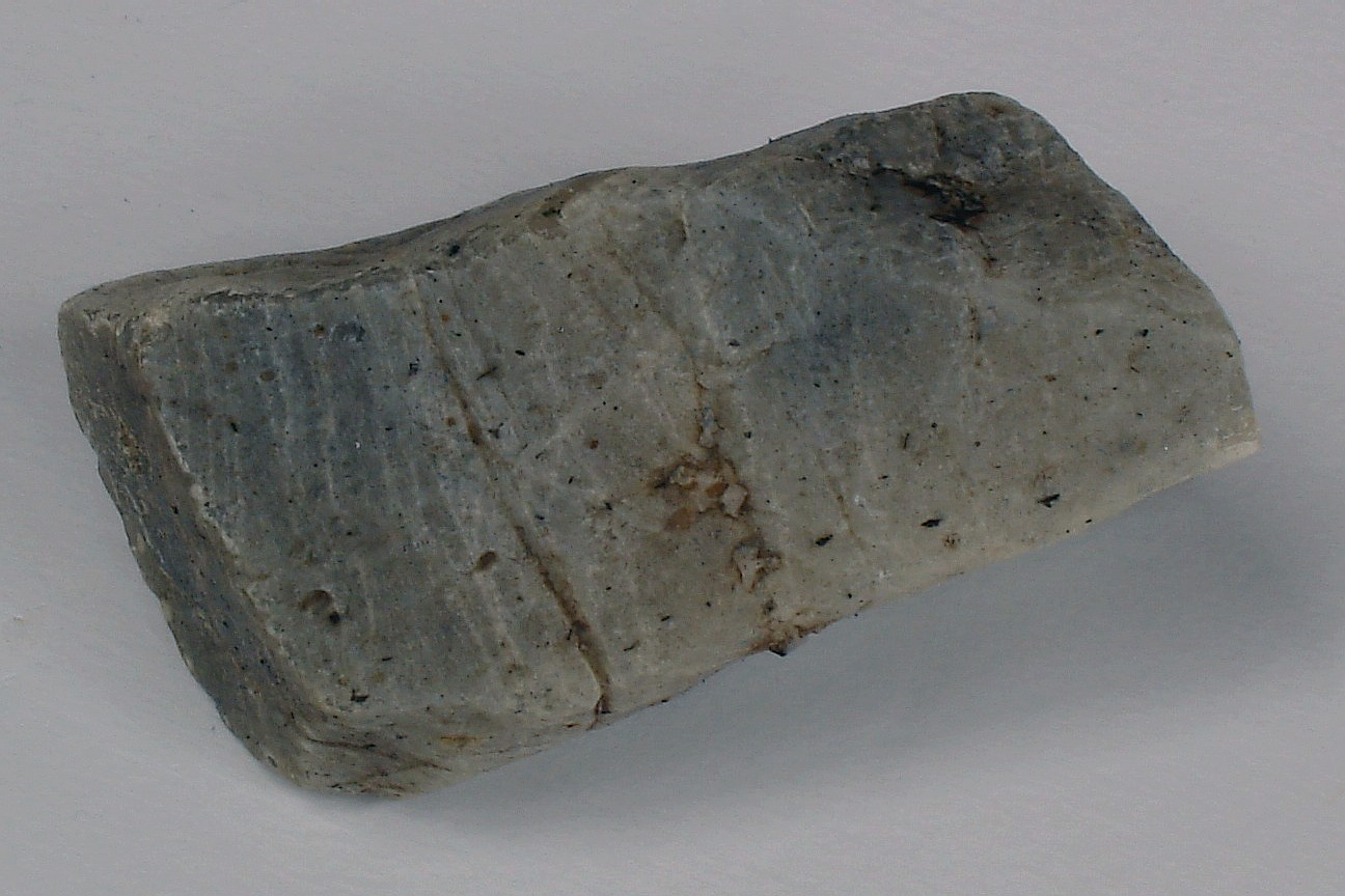 Nepheline crystal from Canaã alkaline massif, Rio de Janeiro The mineral surface is lightly wheathered Sample size:5 X 2,5 cm Author:Eurico Zimbres Free for all use